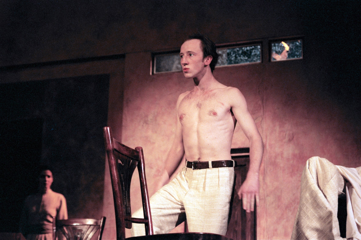 Tropical craze - performance in TR Warszawa